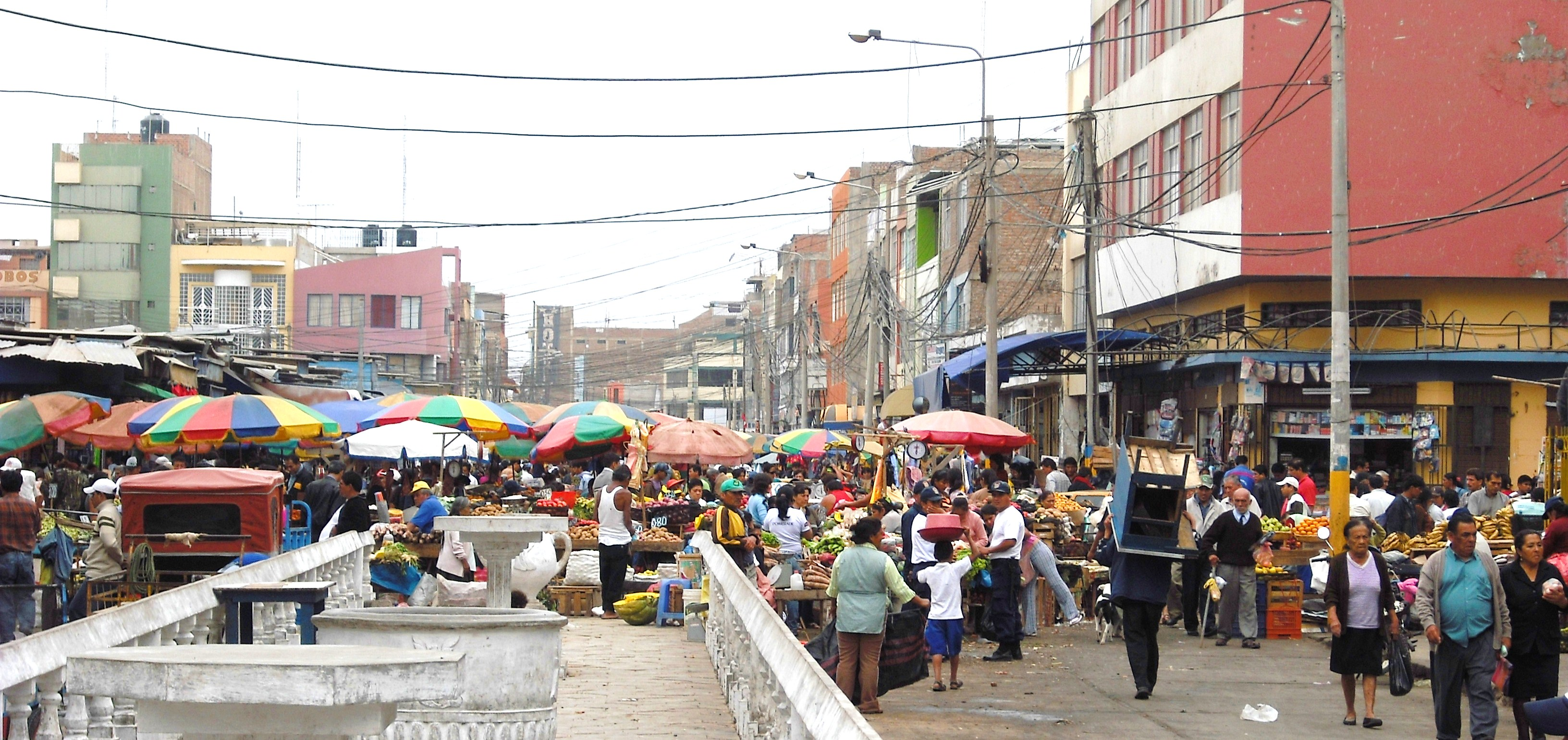 Chiclayo market, Peru